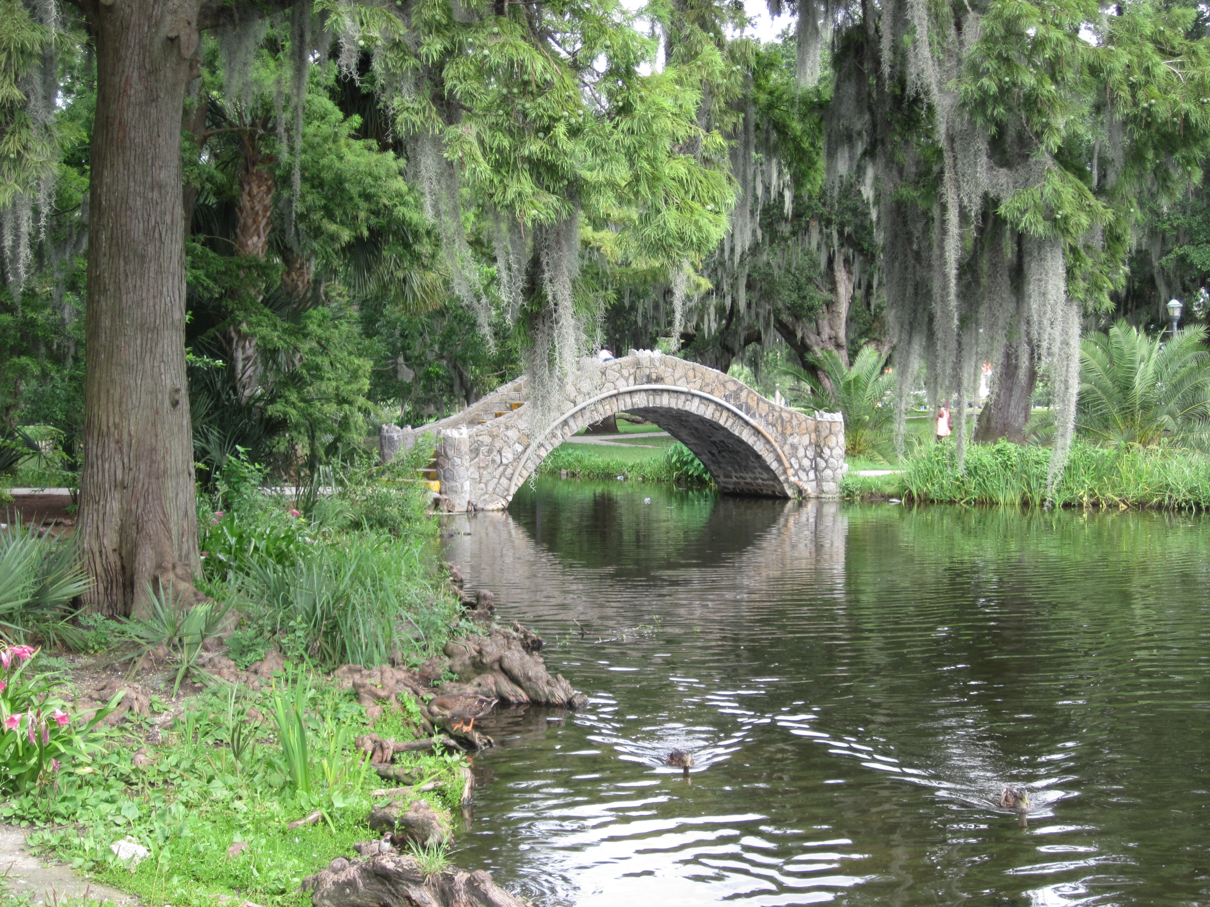 City Park, New Orleans. Scene showing "lagoon" (remainder of the mostly filled in Bayou Metairie) crossed stone arch pedestrian bridge. Ducks swim in the water. Above are live oak trees draped with Spanish moss.